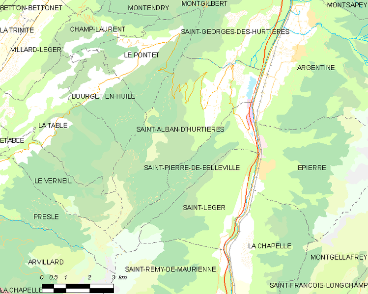 Map of French municipality